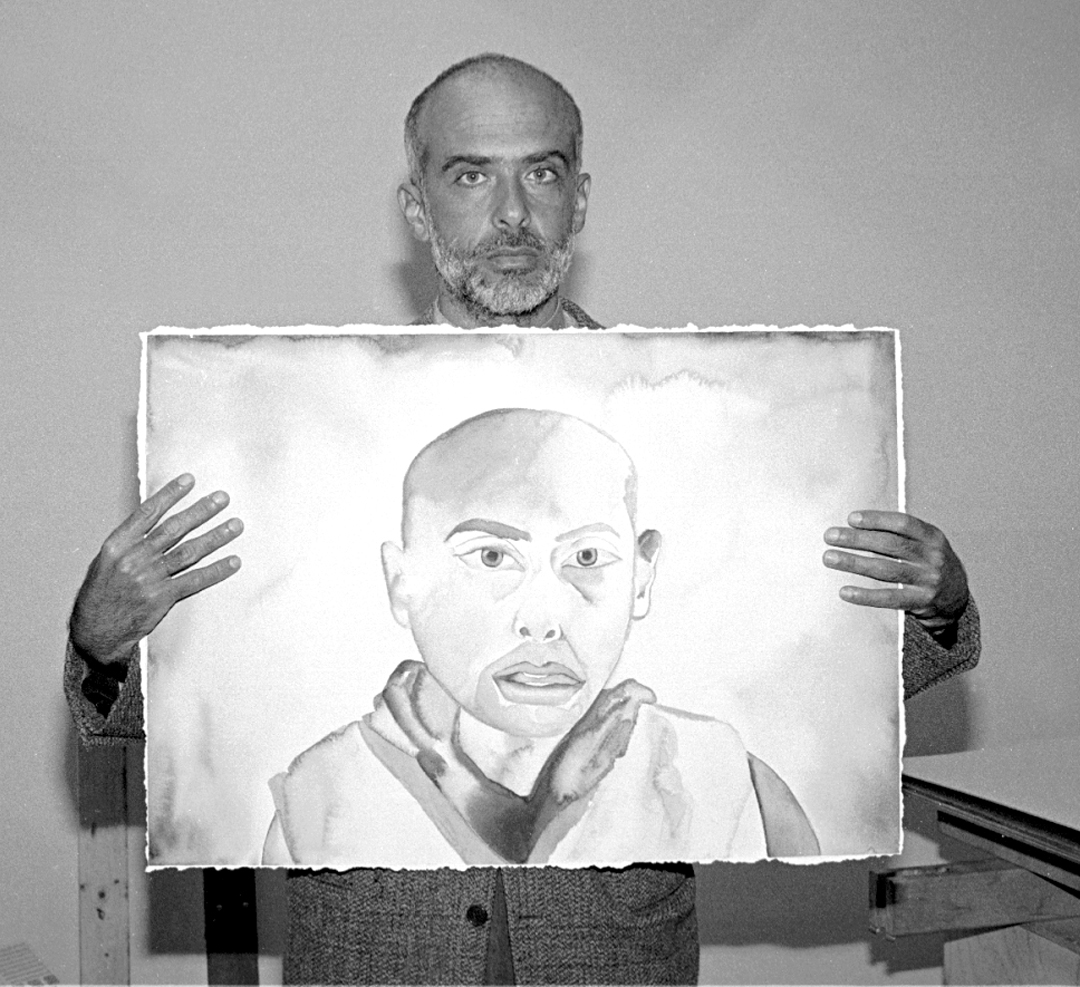 Francesco Clemente in San Francisco holding his self-portrait at Nash Editions